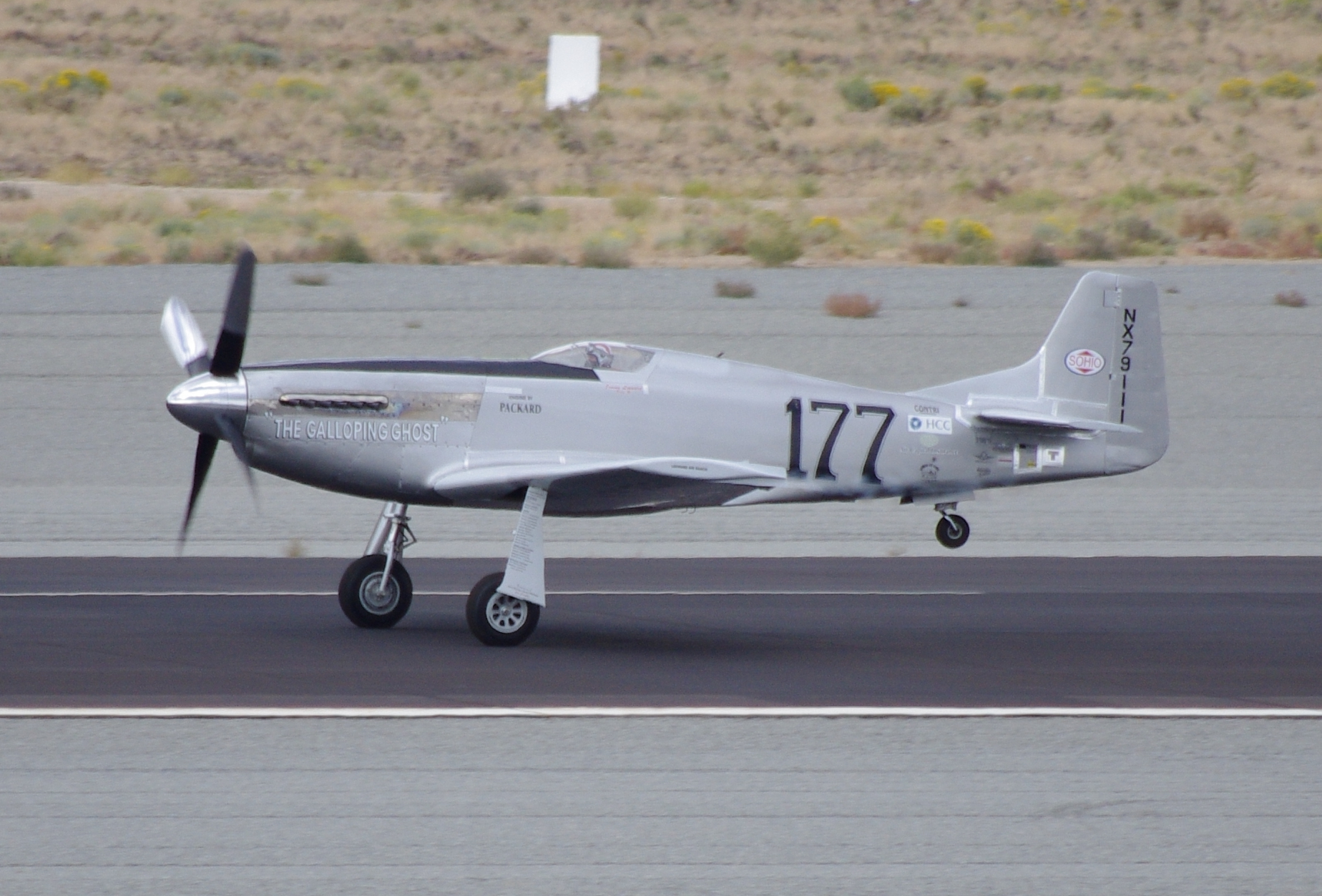 I pray for victims of the tragic crash.